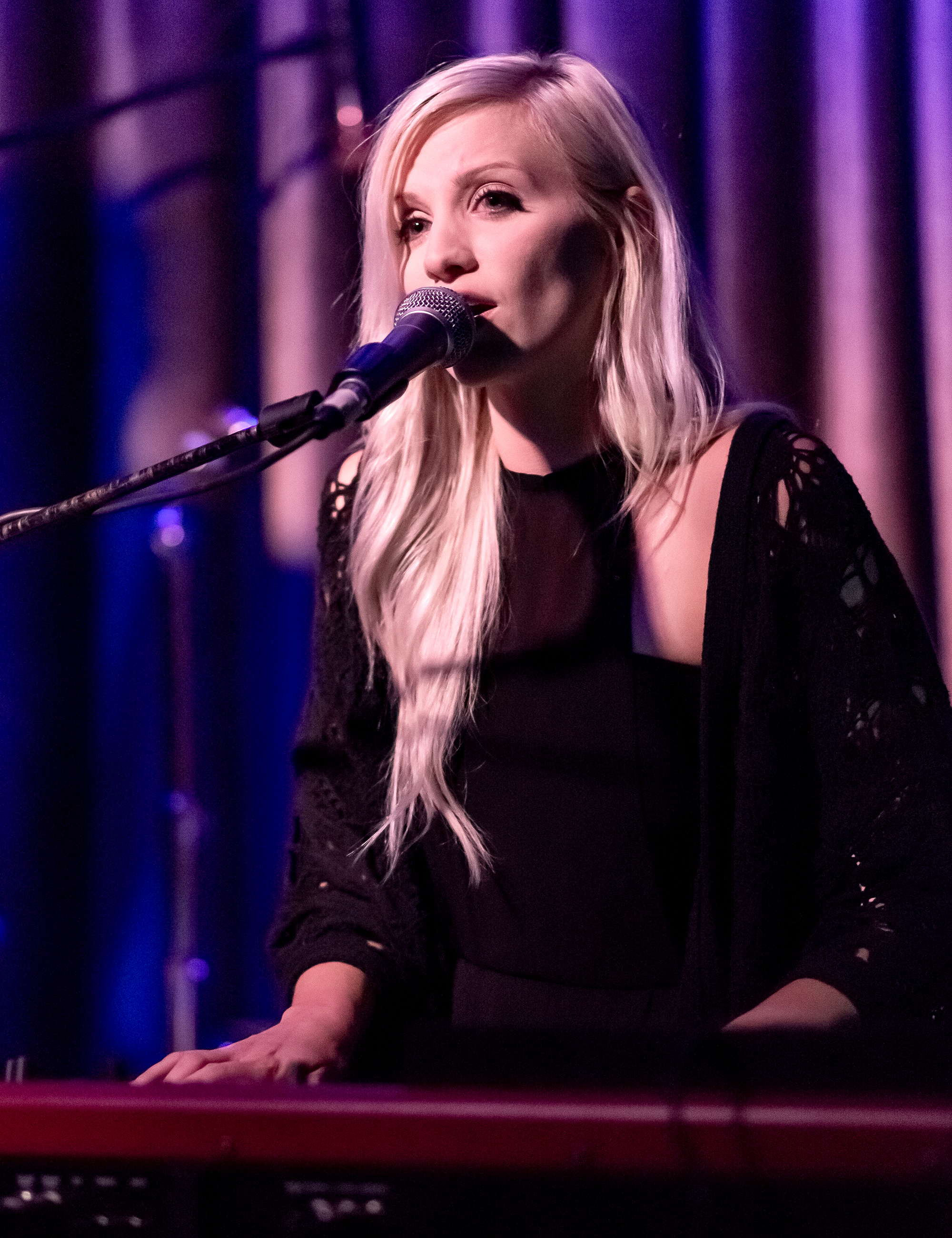 The Sweeplings performing live at the Hotel Cafe in Hollywood, Los Angeles, California, on Saturday, July 14, 2018.